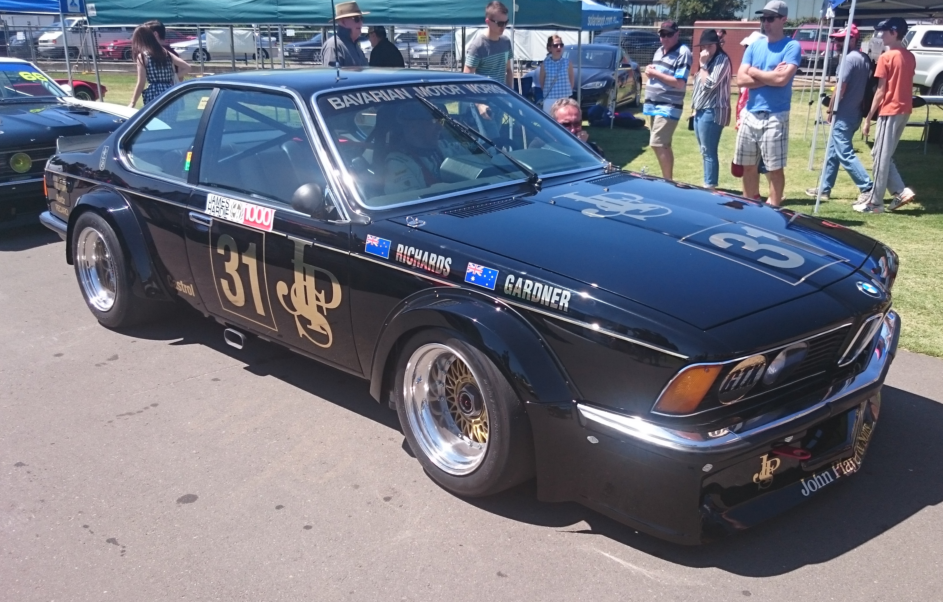 BMW 635 CSi Group C Touring Car at the 2015 Adelaide Motorsport Festival. Jim Richards, one of the car's original drivers, is at the wheel.